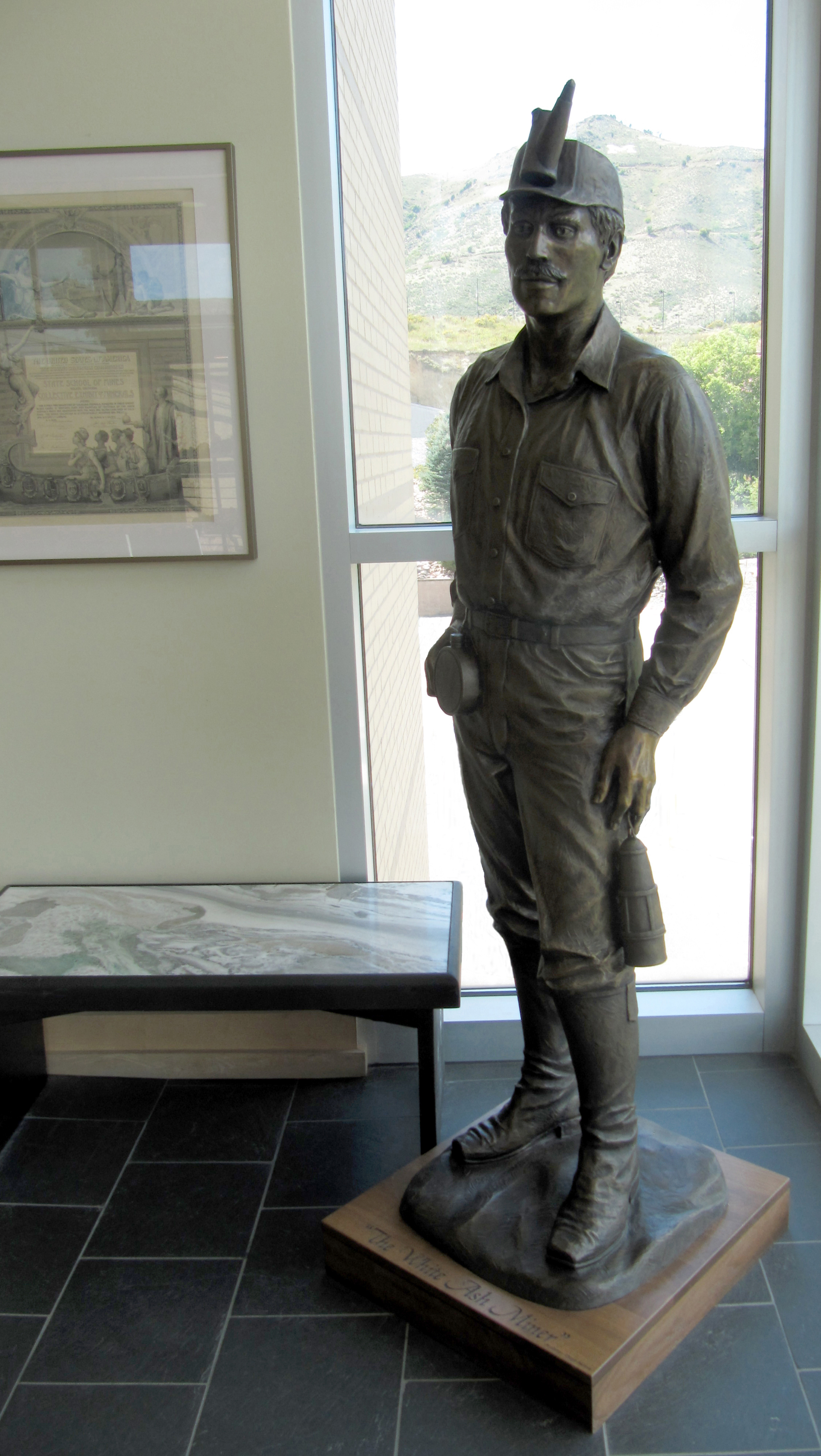 This statue at the Colorado School of Mines Geology Museum honors the ten men who were killed in the White Ash Mine Disaster in 1889.